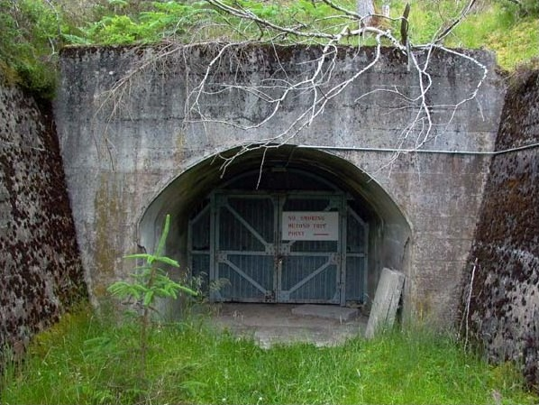 Disused underground oil storage facility.